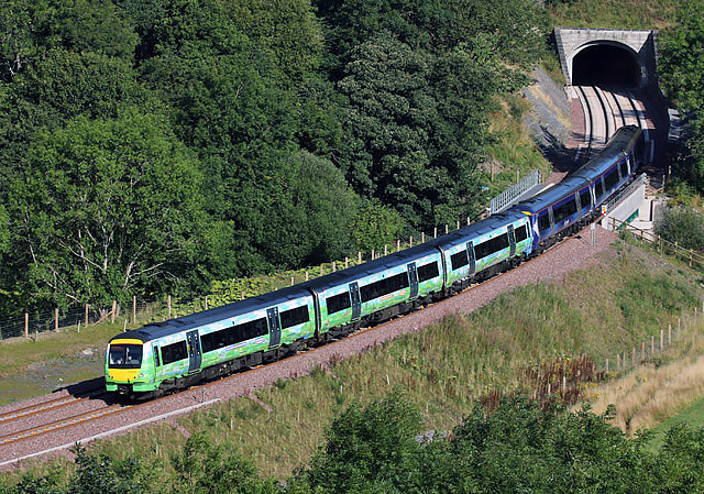 A train on the Borders Railway